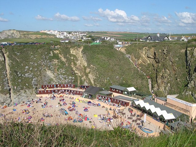 Lusty Glaze Beach, Newquay. Taken looking north east in the late afternoon sun.